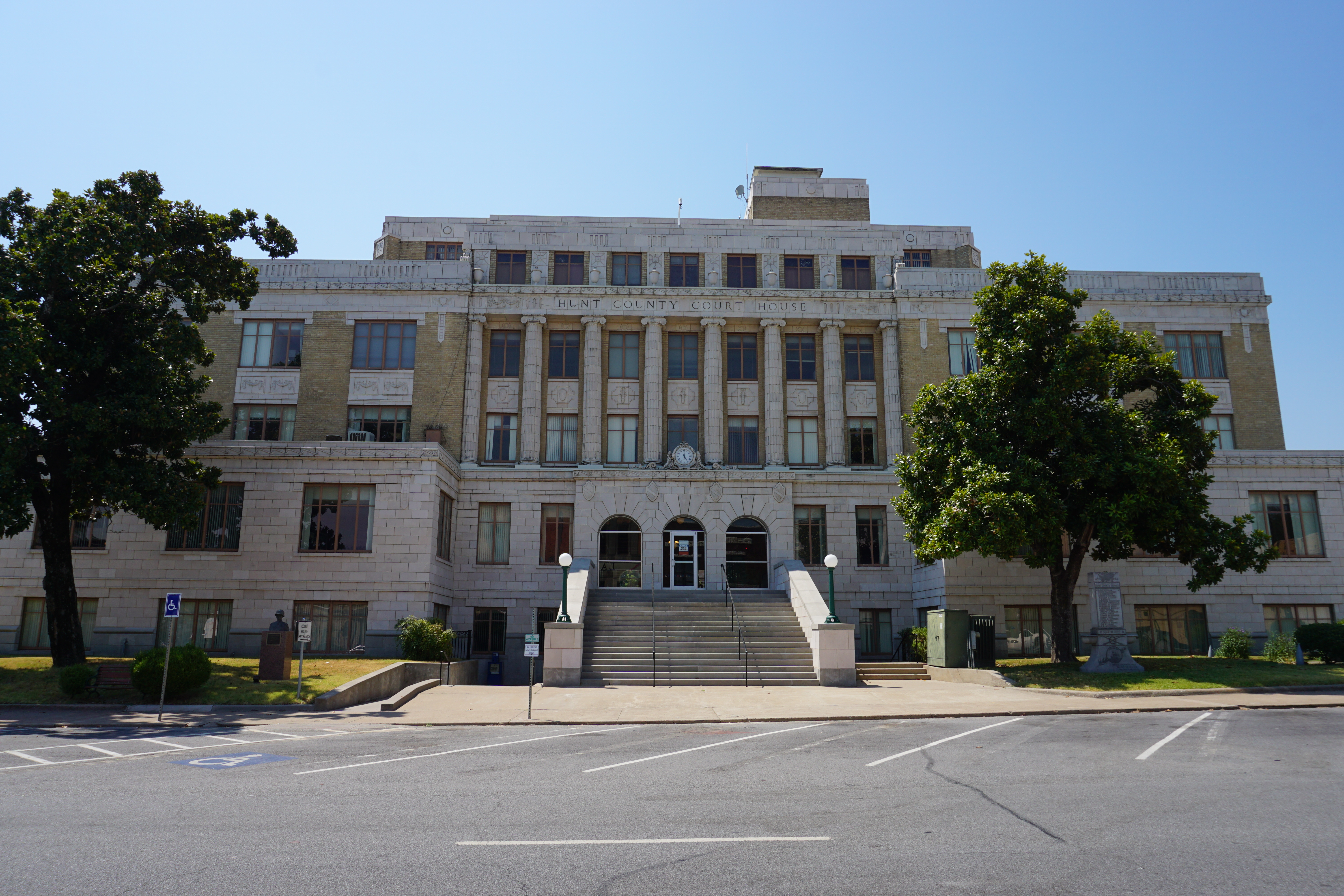 The Hunt County Courthouse in Greenville, Texas (United States).